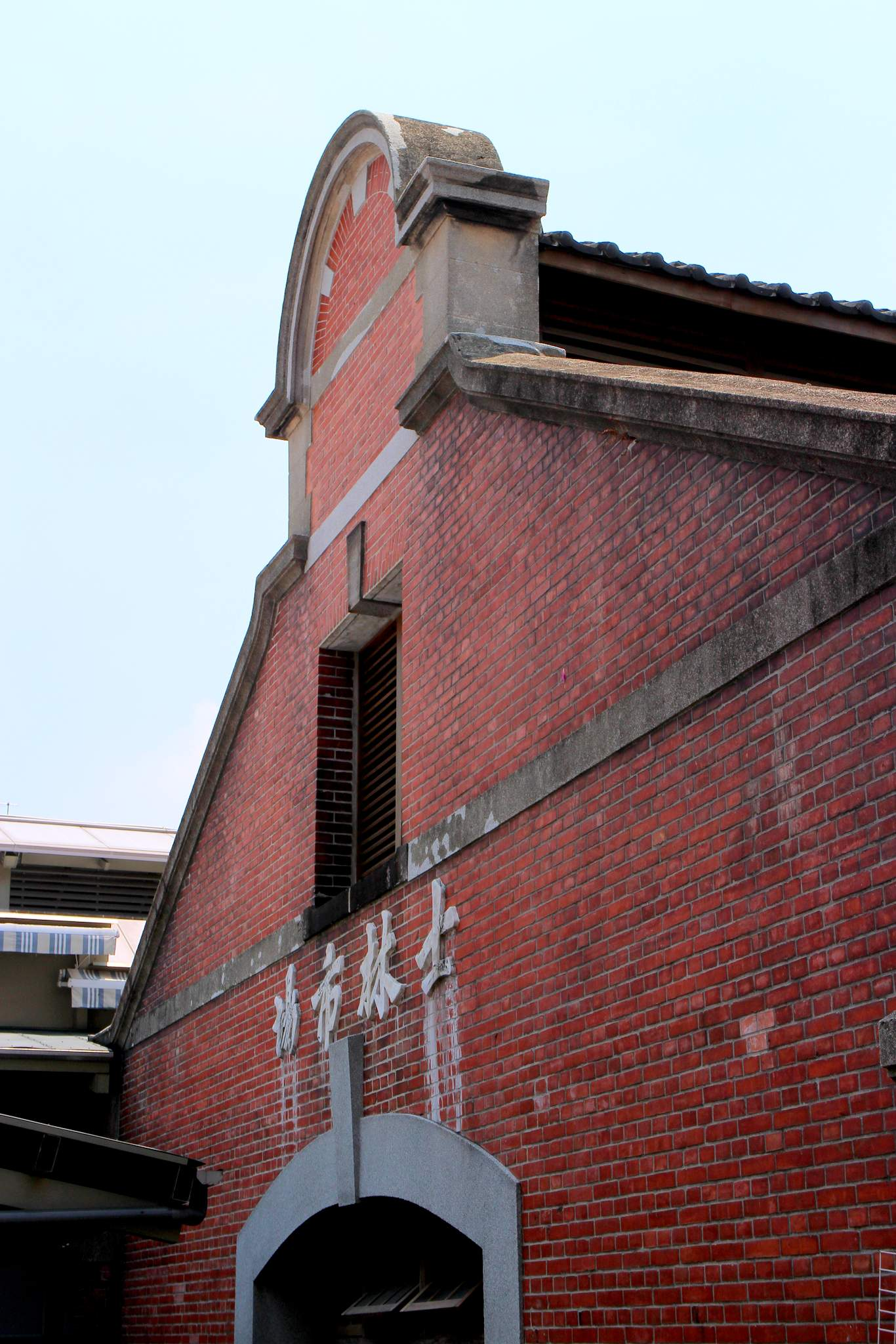 ShihLin Market